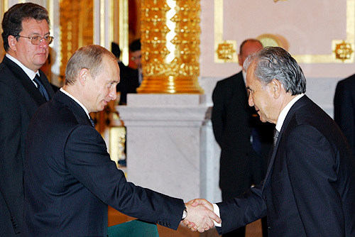 THE GRAND KREMLIN PALACE, MOSCOW. Presentation of a letter of credence by the Ambassador of the Kyrgyz Republic to Russia, Apas Jumagulov.